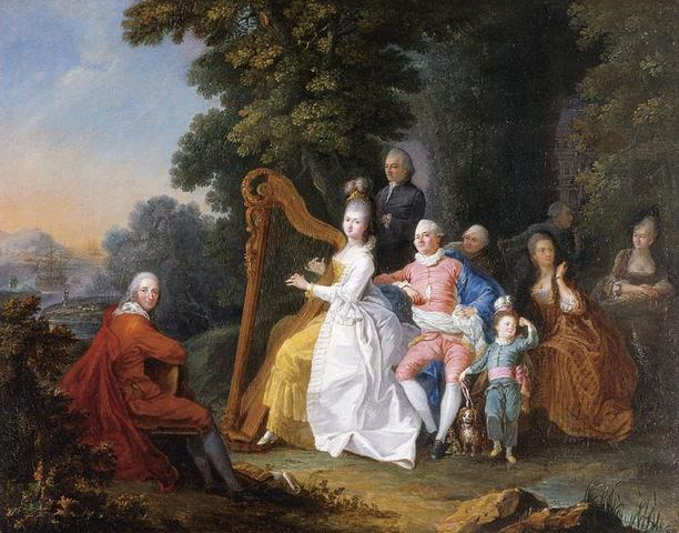 An elegant party in the countryside with a lady playing the harp and a gentleman playing the guitar